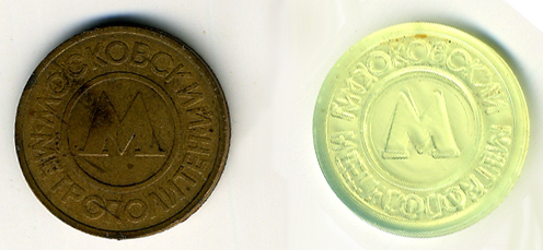 м